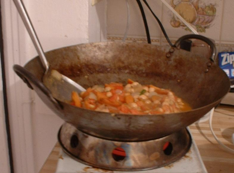 A wok, in use. This wok sits on a metal ring designed for use with a gas stove, even though it is being used on an electric stove; with this arrangement the wok heats only slowly. The ring could be placed upside down for stir-frying. Taken by User:Aarchiba